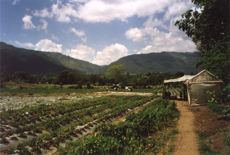 Strawberryfield near Jarabacoa, Dominican Republic